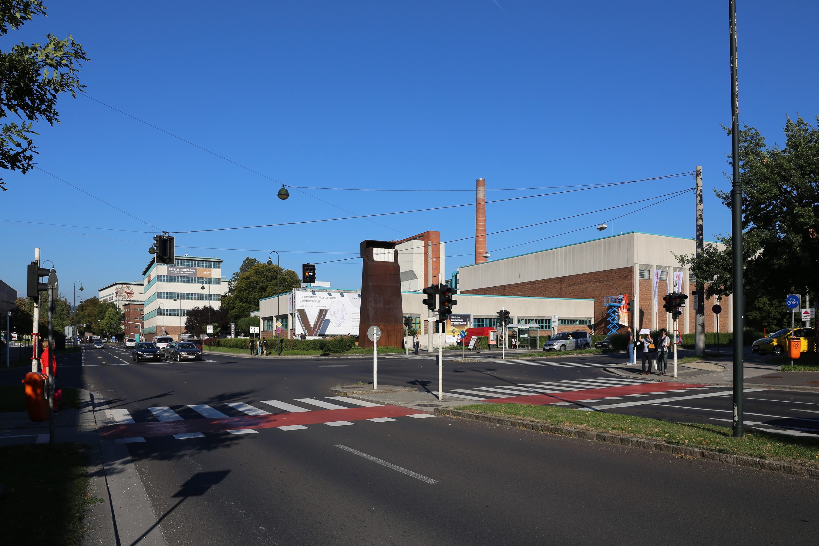 Tabakfabrik during Ars Electronica 2013, Linz, Upper Austria.